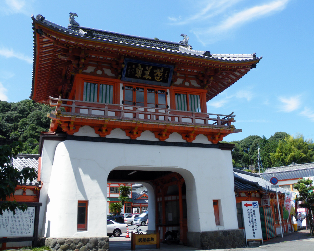 Rōmon at Takeo Hotsprings, Takeo City, Saga, Japan